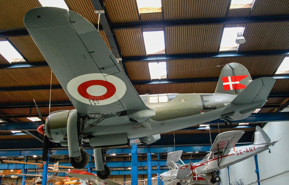 SAAB B 17A 17320 on display at Danmarks Tekniske Museum in Elsinore, Denmark.